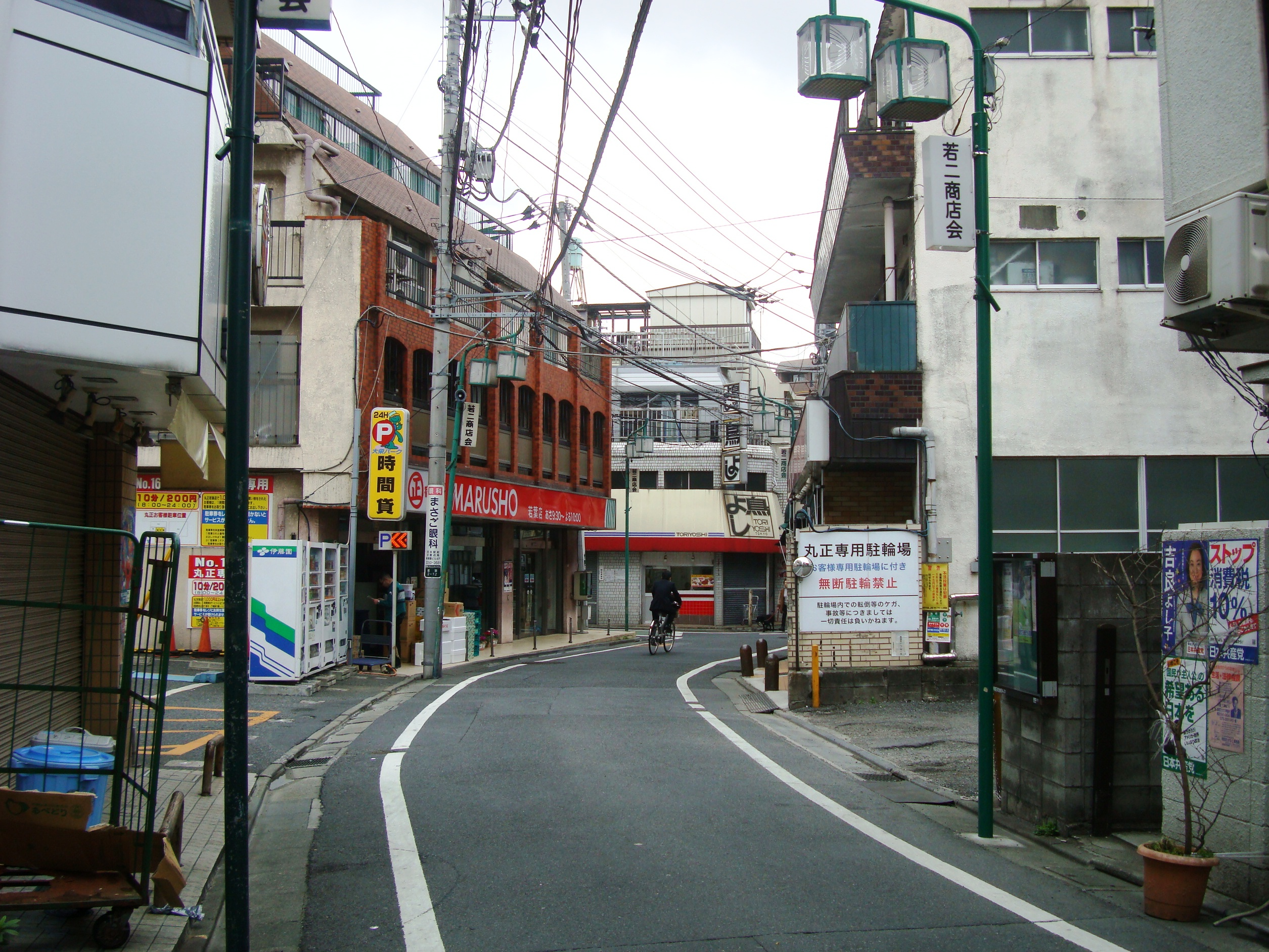 Shopping street at Wakaba 2, Shinjuku city, Tokyo